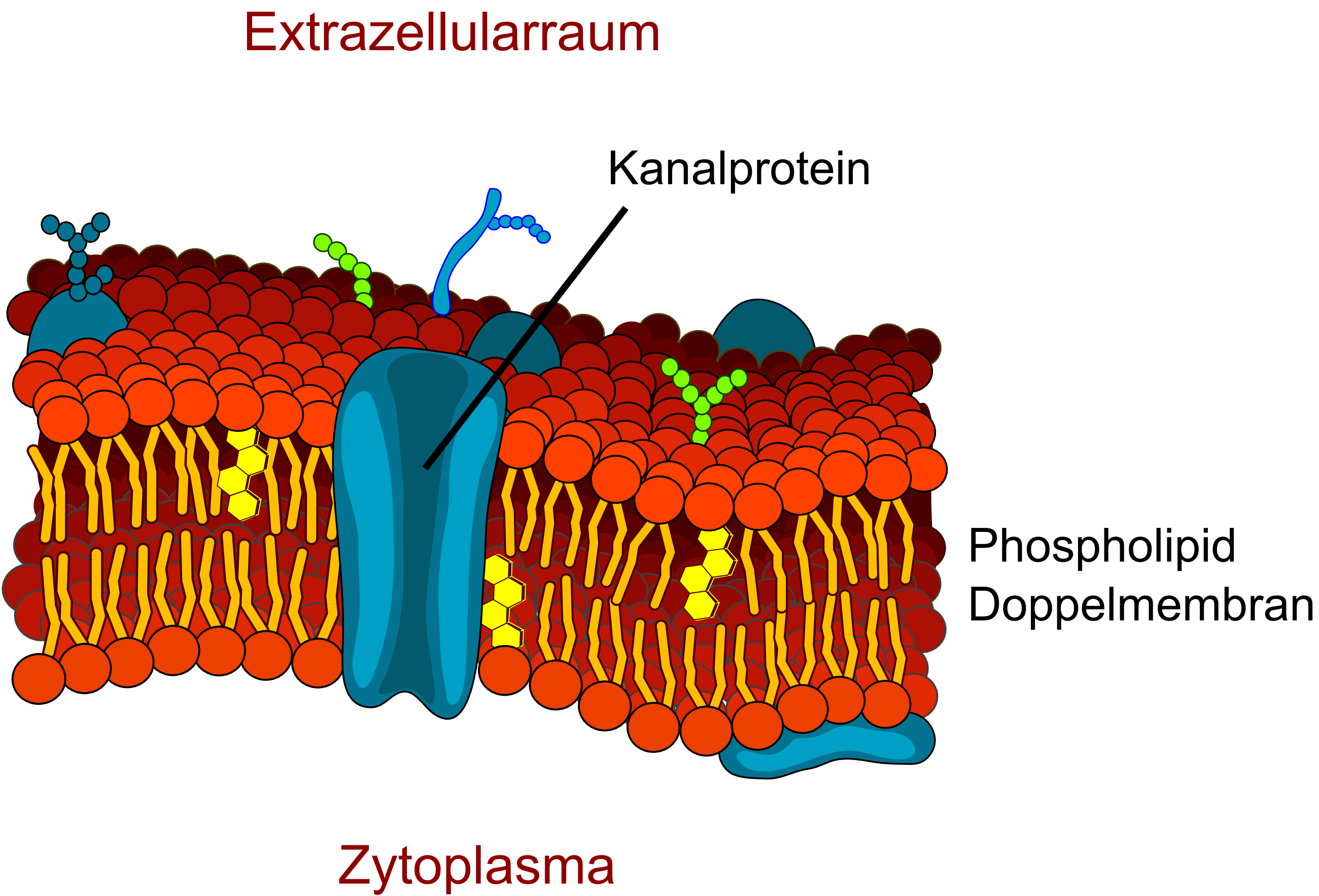 Schematic sketch of a channel protein at an endothelial membrane of the blood-brain barrier.